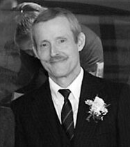 Bruce E. Ivins,suspected to be responsible for the 2001 anthrax attacks.